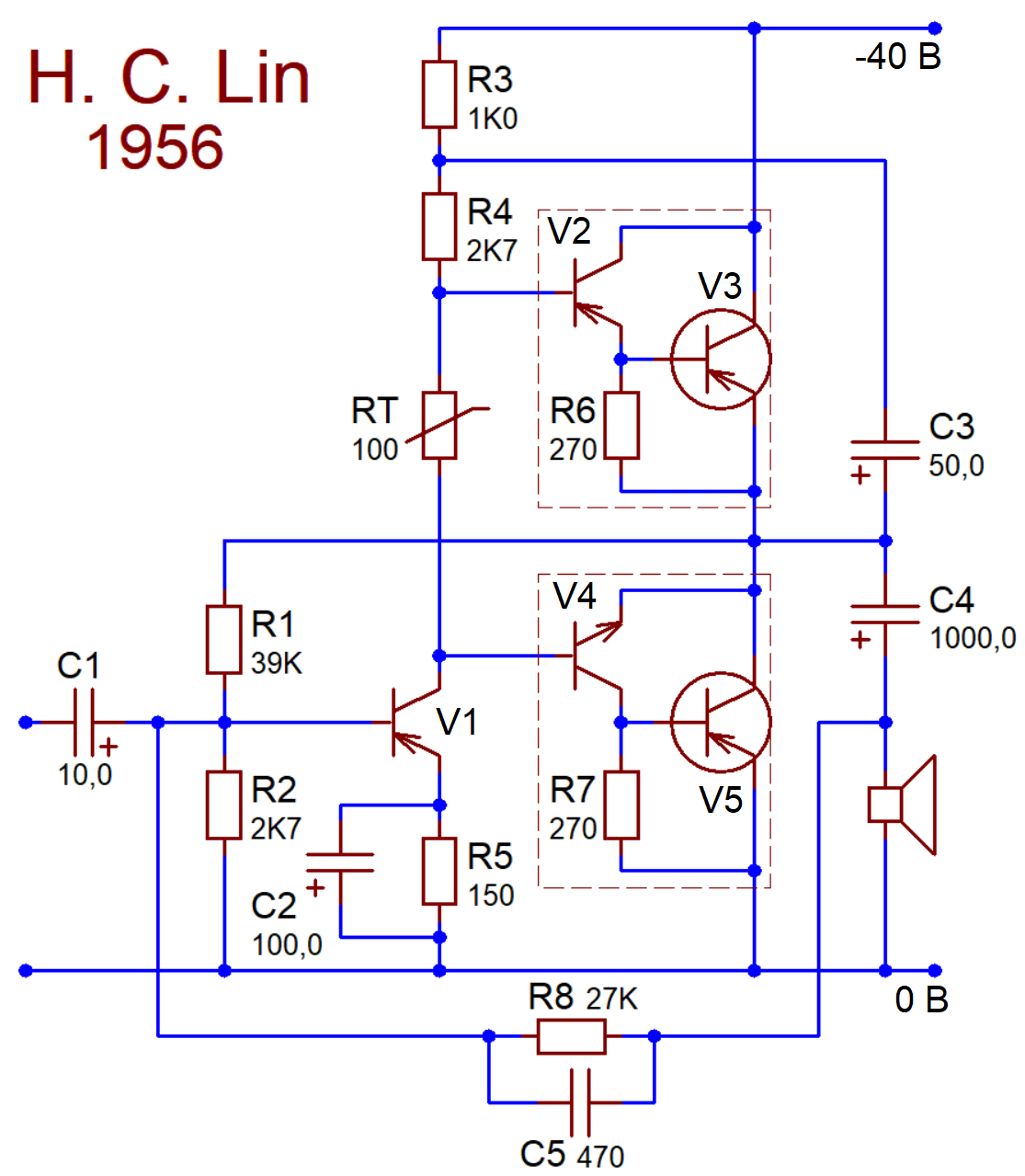 The original Lin amplifier. All values as in H.C.Lin's original publication (fig. 3.11). Note that the reproduction of the same in J.L.Hood's book has a silly error - plus, not minus, on the top rail.